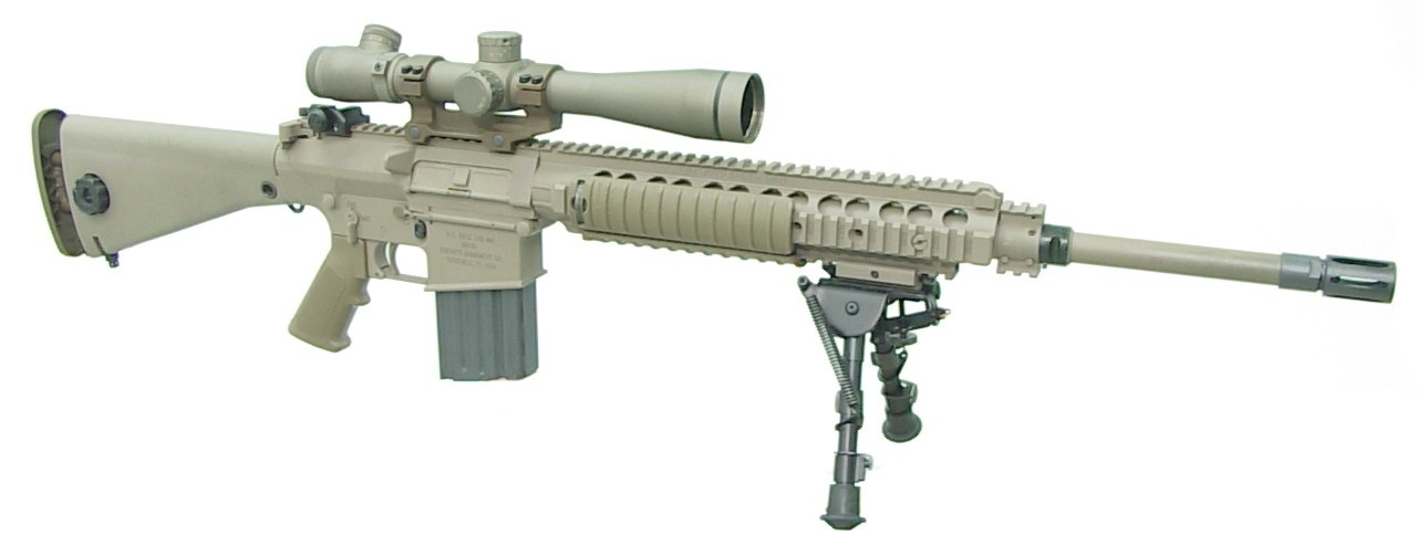 The latest version of the M110 Semi-Automatic Sniper System. Bipod is folded down. Features the new ECP improvements such as a buttstock hand-tightening knob, sling swivel sockets, a double sided bolt catch, and a button on the folding front sight to allow it to be locked into position.